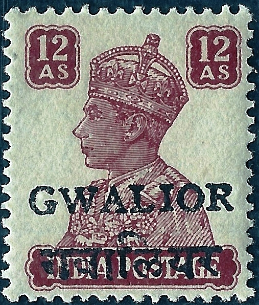 Twelve Annas (lake colour) King George VI Head overprinted with "GWALIOR" in English and Devanagri script (language Hindi) Typeface 6, overrprinted at the Alizah printing press, Gwalior (Apr 1949). Postage stamp of Gwalior state, a Central Indian convention state. Ser No 137 for Gwalior in Stanley Gibbons Stamp Catalogue Commonwealth & British Empire Stamps (1840-1970). (2008). London. Ref pp 283-285. Own work. From the collection of Brig A.P. Singh (self).